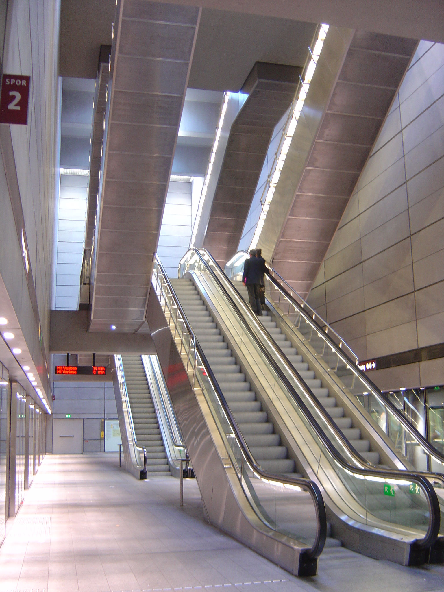 Kongens Nytorv station is part of Copenhagen Metro, at Magasin du Nord in Copenhagen. Seen from north side of the station under ground.